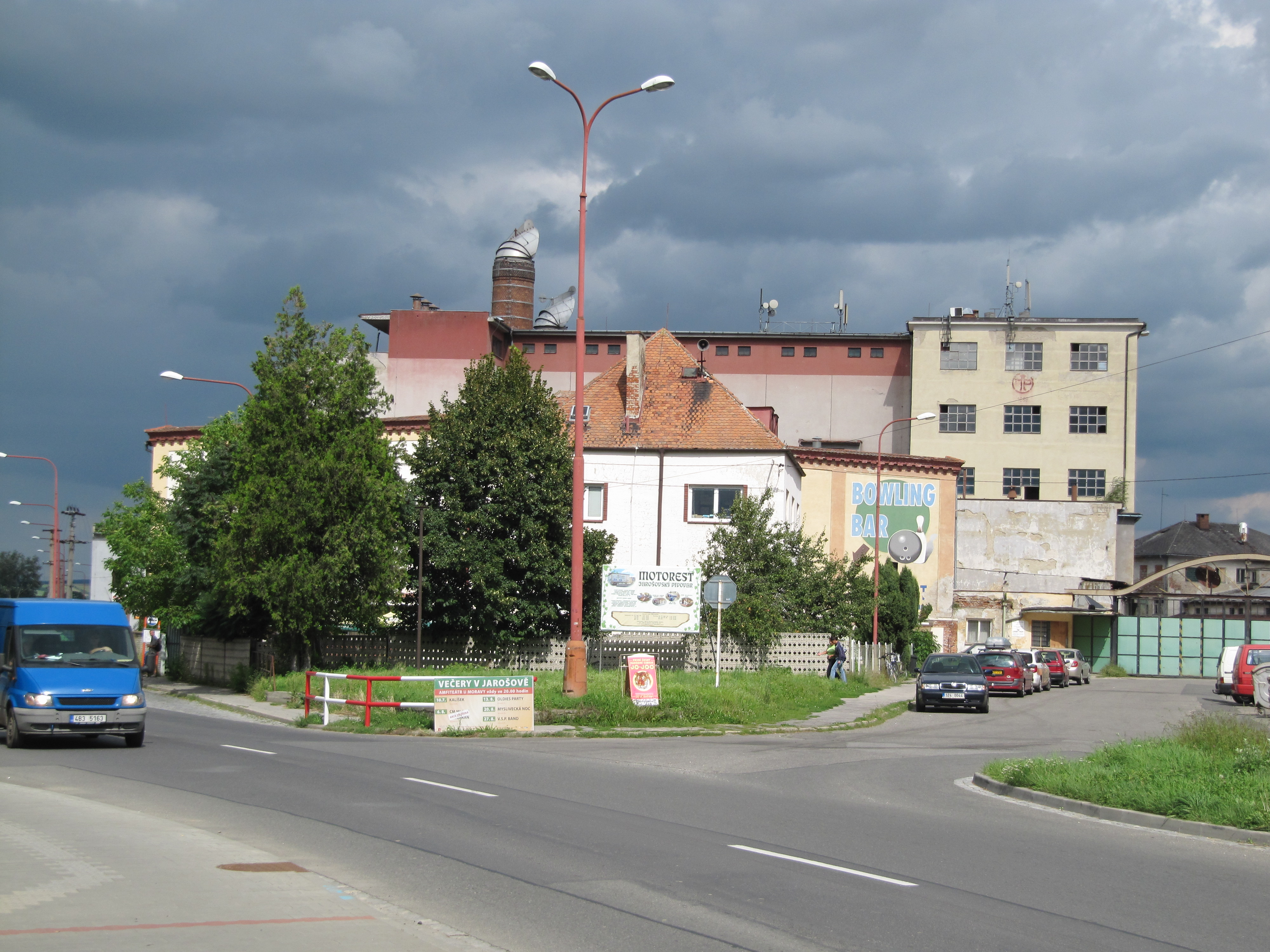 Uherské Hradiště, Czech Republic, part Jarošov. Former brewery.